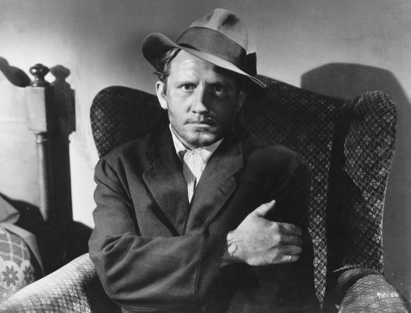 Publicity still for the 1936 film Fury, featuring Spencer Tracy. Such images were taken on set during filming, or as part of an organized photo-shoot, by a studio photographer. They were then disseminated to the media and the public to promote the film (see Film still). This is definitely a film still rather than a screenshot, as the quality is too high and a stock code can be seen in the corner. Public domain explanation It is unlikely that this image was secured with copyright protection, as stated by film induustry expert Gerald Mast in Film Study and the Copyright Law (1989) p. 87: "According to the old copyright act, such production stills were not automatically copyrighted as part of the film and required separate copyrights as photographic stills ... Most studios have never bothered to copyright these stills because they were happy to see them pass into the public domain, to be used by as many people in as many publications as possible." If there is any chance that the photograph was copyrighted, under the terms of the 1909 Copyright Act (which was law until 1978) it would have had to be renewed 28 years after publication. A search for copyright renewal records of 1964 ([1], [2]) reveal no trace that this occurred.